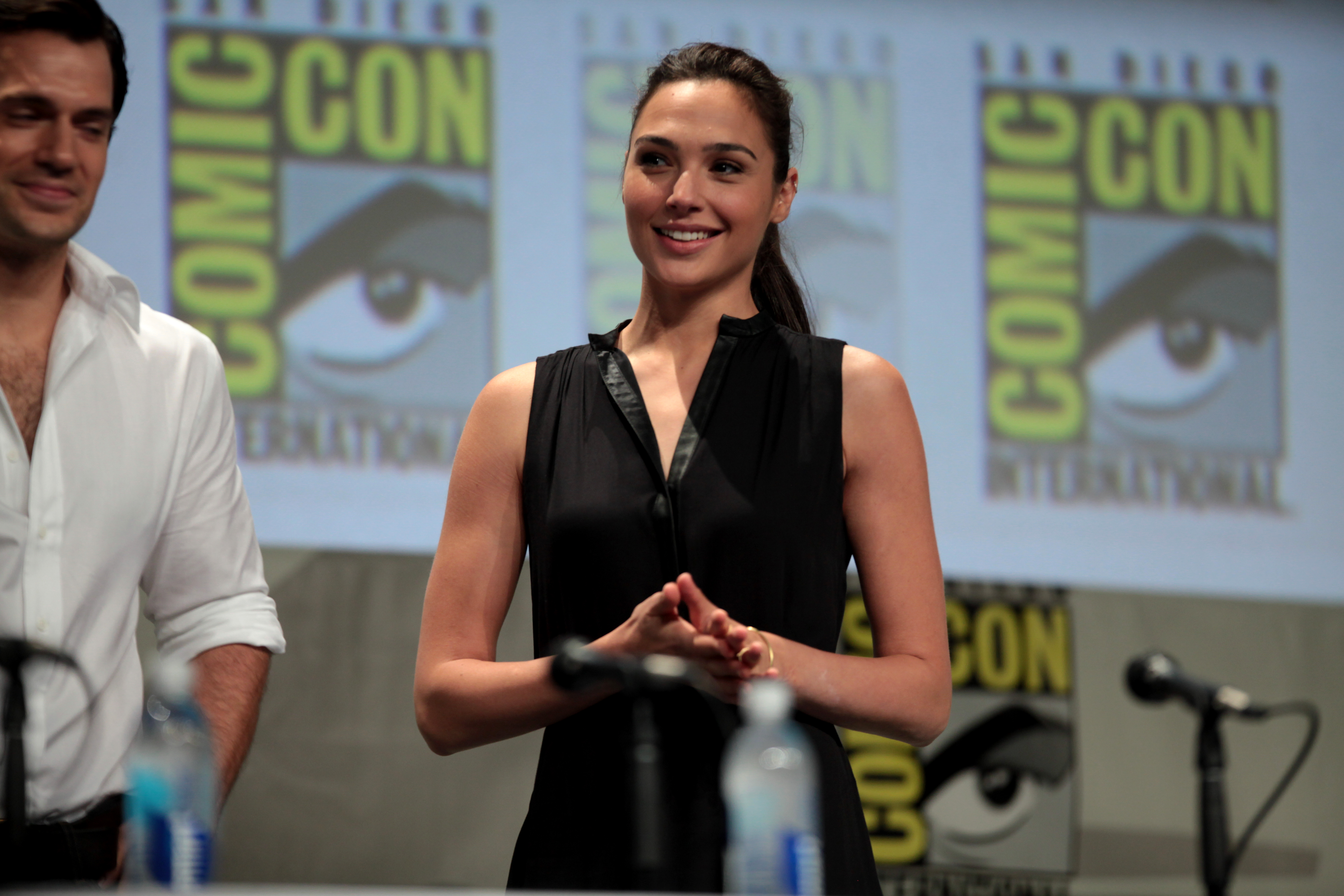 Gal Gadot speaking at the 2014 San Diego Comic Con International, for "Batman v Superman: Dawn of Justice", at the San Diego Convention Center in San Diego, California on July 26, 2014. Photo by Gage Skidmore